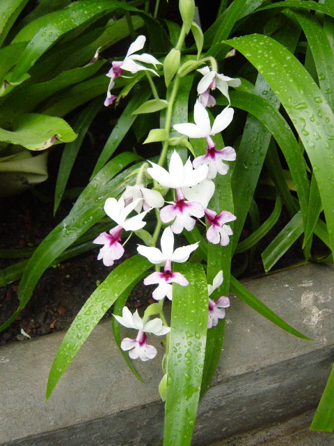 Calanthe vestita , Orchid found in SF Conservatory of flowers